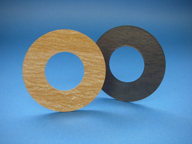 compressed fiber jointing